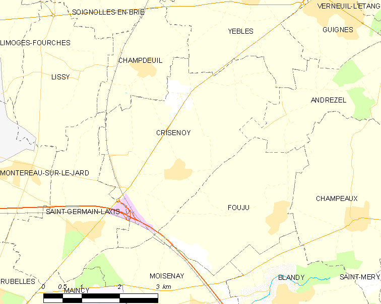 Map of French municipality Crisenoy